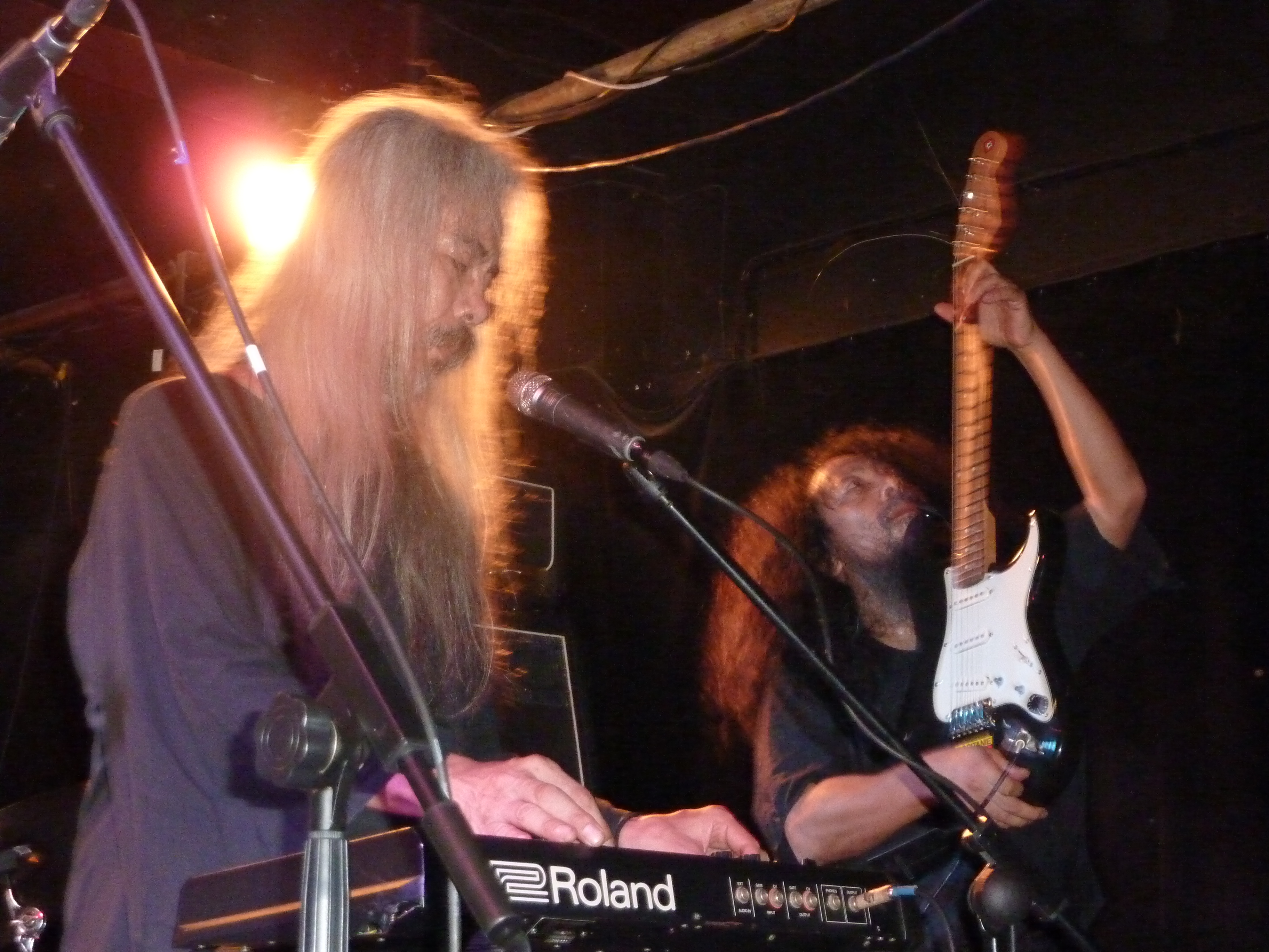 Acid Mothers Temple @ Night & Day Cafe, Manchester 21/10/2012